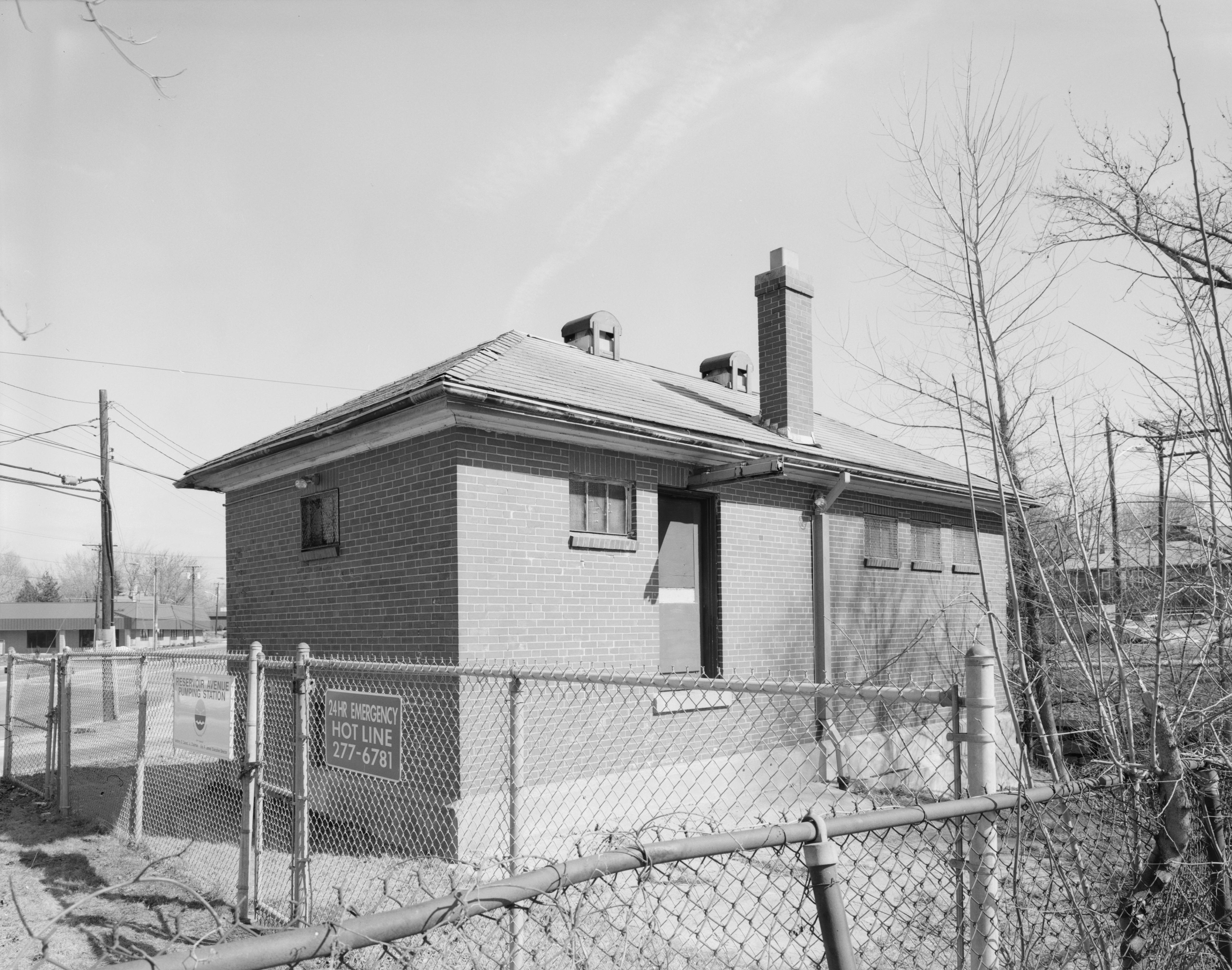 Providence Sewage Treatment System, Reservoir Avenue Pumping Station, Reservoir & Pontiac Avenues, Providence, Providence County, RI